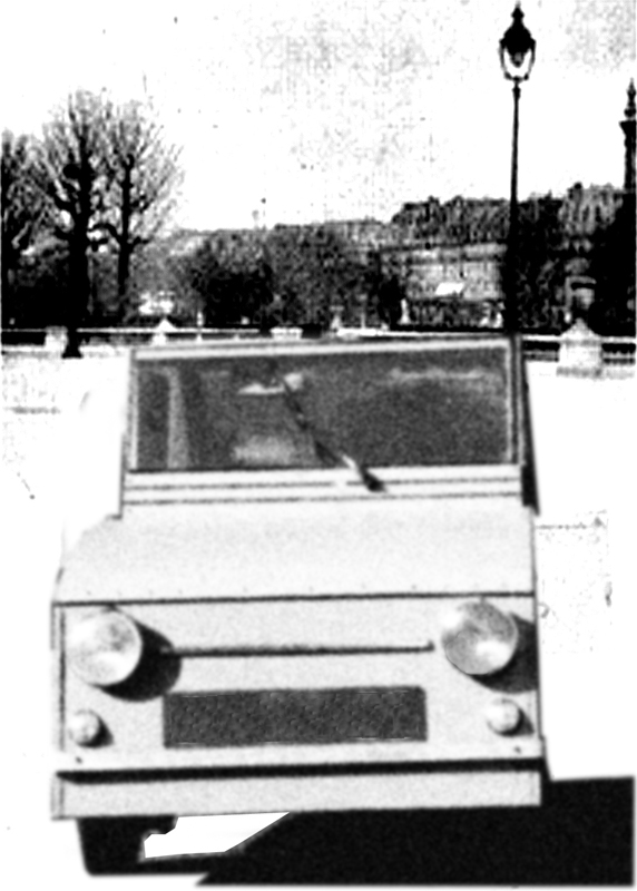 NEW MAP M1 Mini-1 prototype.